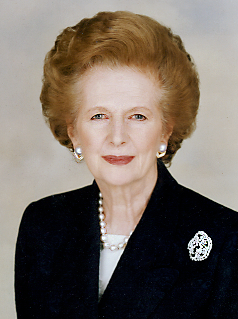 Former British Prime Minister Margaret Thatcher